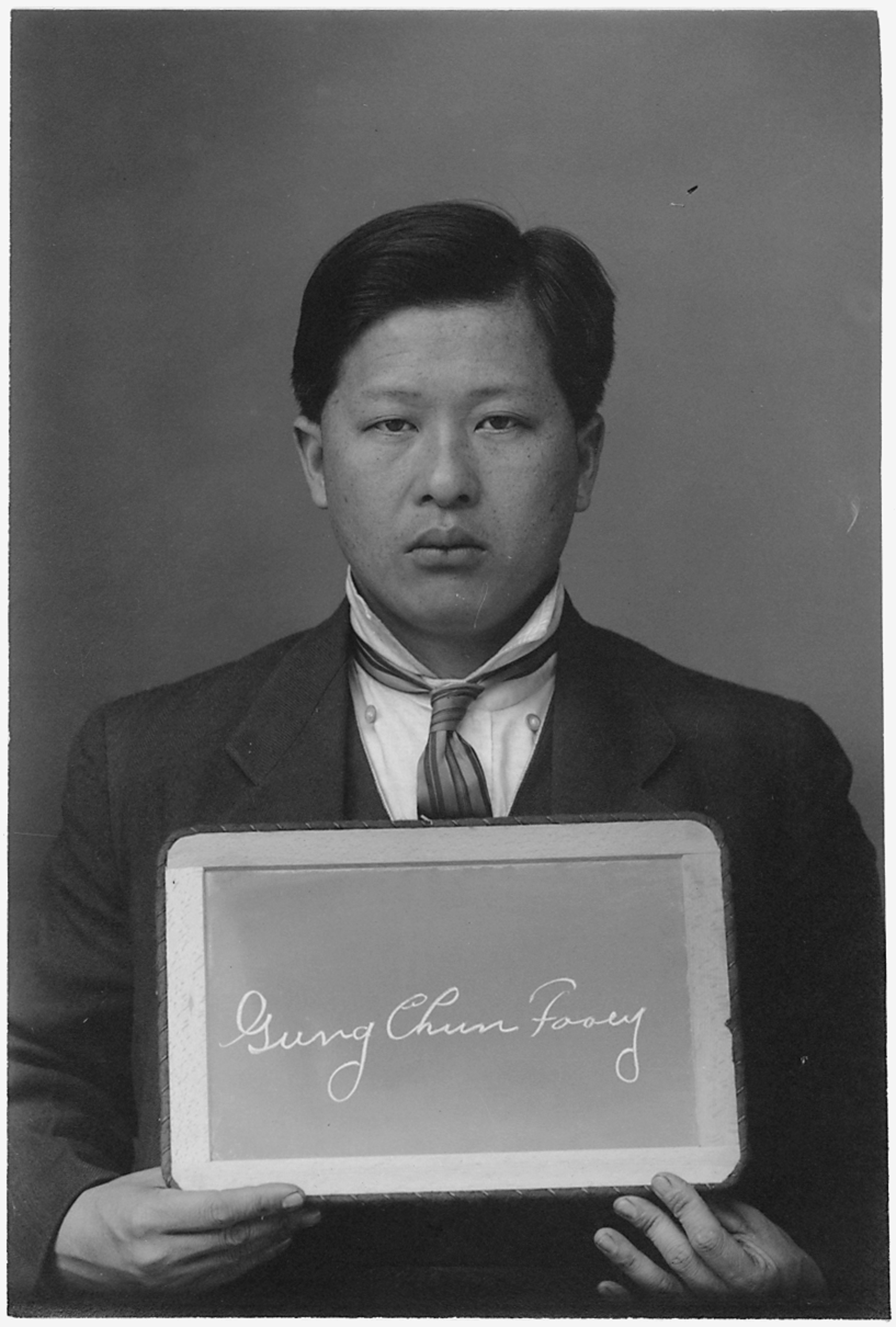 Scope and content: Suey Kee Lung and Gung Chun Fooey were arrested for illegal entry into the United States. The file from which this document originates pertains to the successful efforts to deport them as well as the means by which they entered the U.S. at the Mexican border and made their ways to Portland via San Francisco.